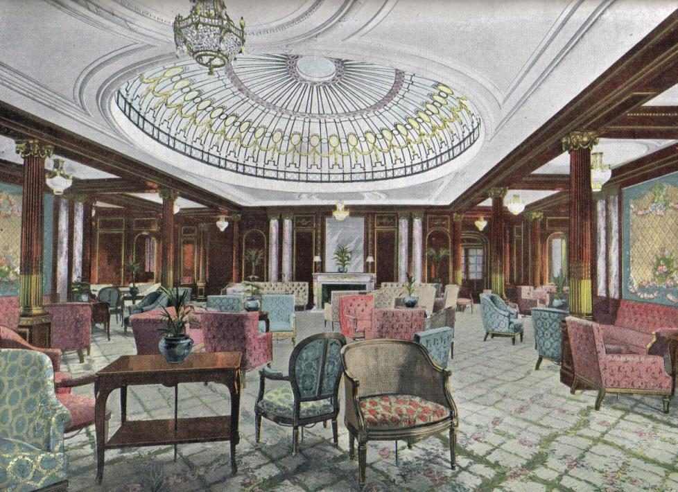 Drawing of the RMS Mauretania's First Class Lounge